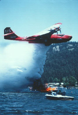 A Consolidated PBY-6A Catalina (c/n 0220, U.S. Navy BuNo 64092, civil N6681C, CF-PIU, now N324FA). The aircraft is owned by the Commemorative Air Force, Minnesota Wing, at Duluth, Minnesota (USA) since 1999 and flown in its firebomber configuration, as it was used from 1979 to 1988.